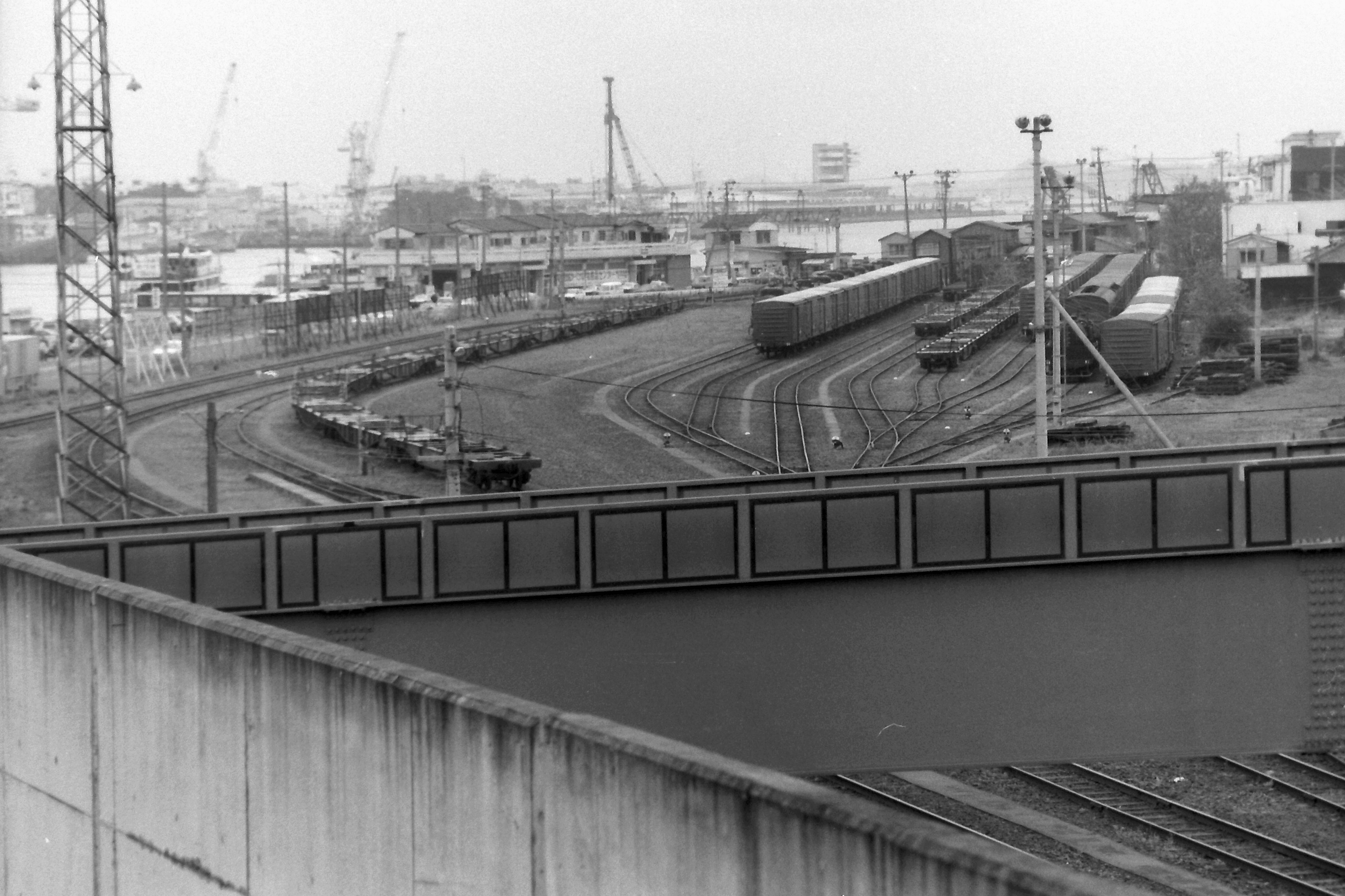 Shiogama Futo station freight yard May 1989